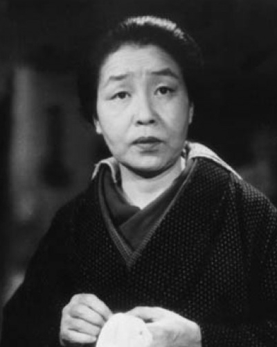 Chōko Iida in Nagaya shinshiroku (1947) directed by Yasujiro Ozu